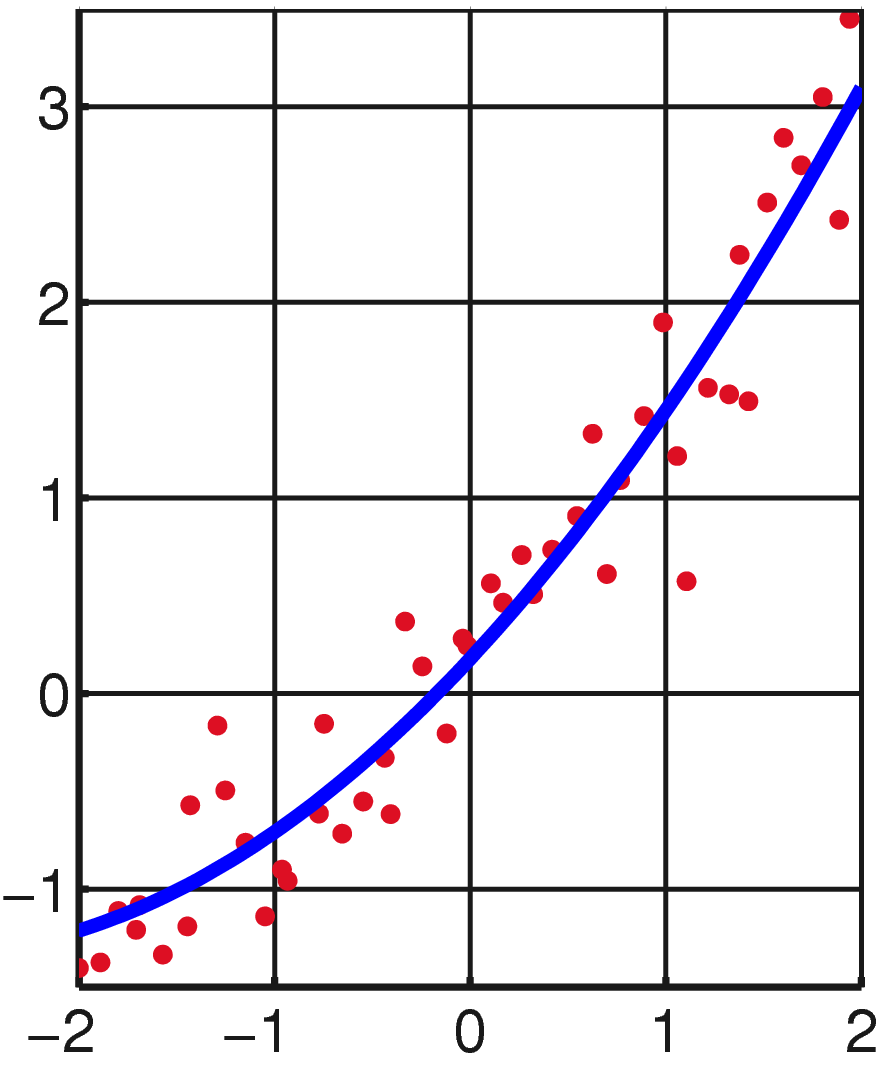 Illustration of linear least squares.